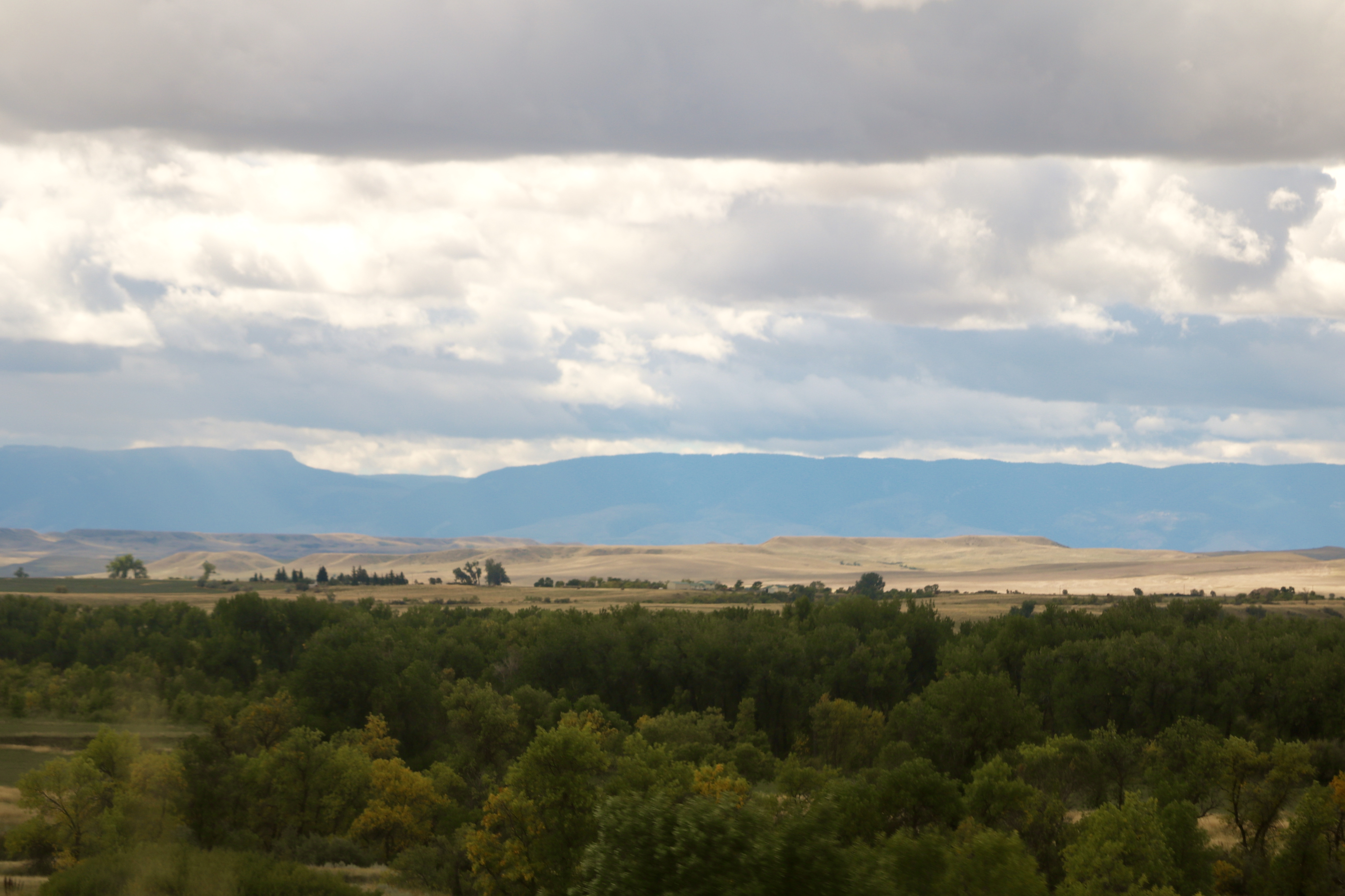 Images taken from Interstate 90 on the Crow Indian Reservation, Big Horn County, Montana, in the Crow Agency/Lodge Grass area